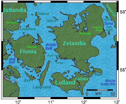 Map of the three Danish Straits that connect the Baltic Sea to the Kattegat strait and North Sea. Also showing the straits islands. Great Strait−Storebælt is the middle of the three Danish Straits.